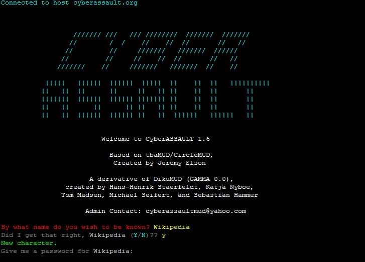 The login screen is where a player can login or be created.